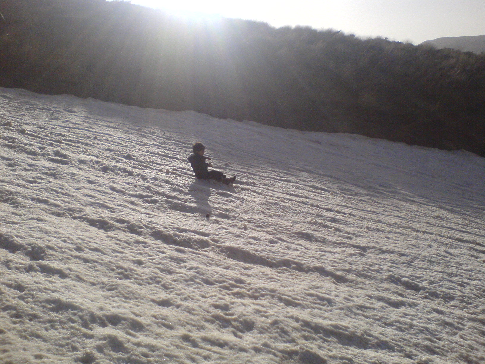 faraj abad فرج آباد روستایی زیبا در استان مرکزی شهرستان خمین